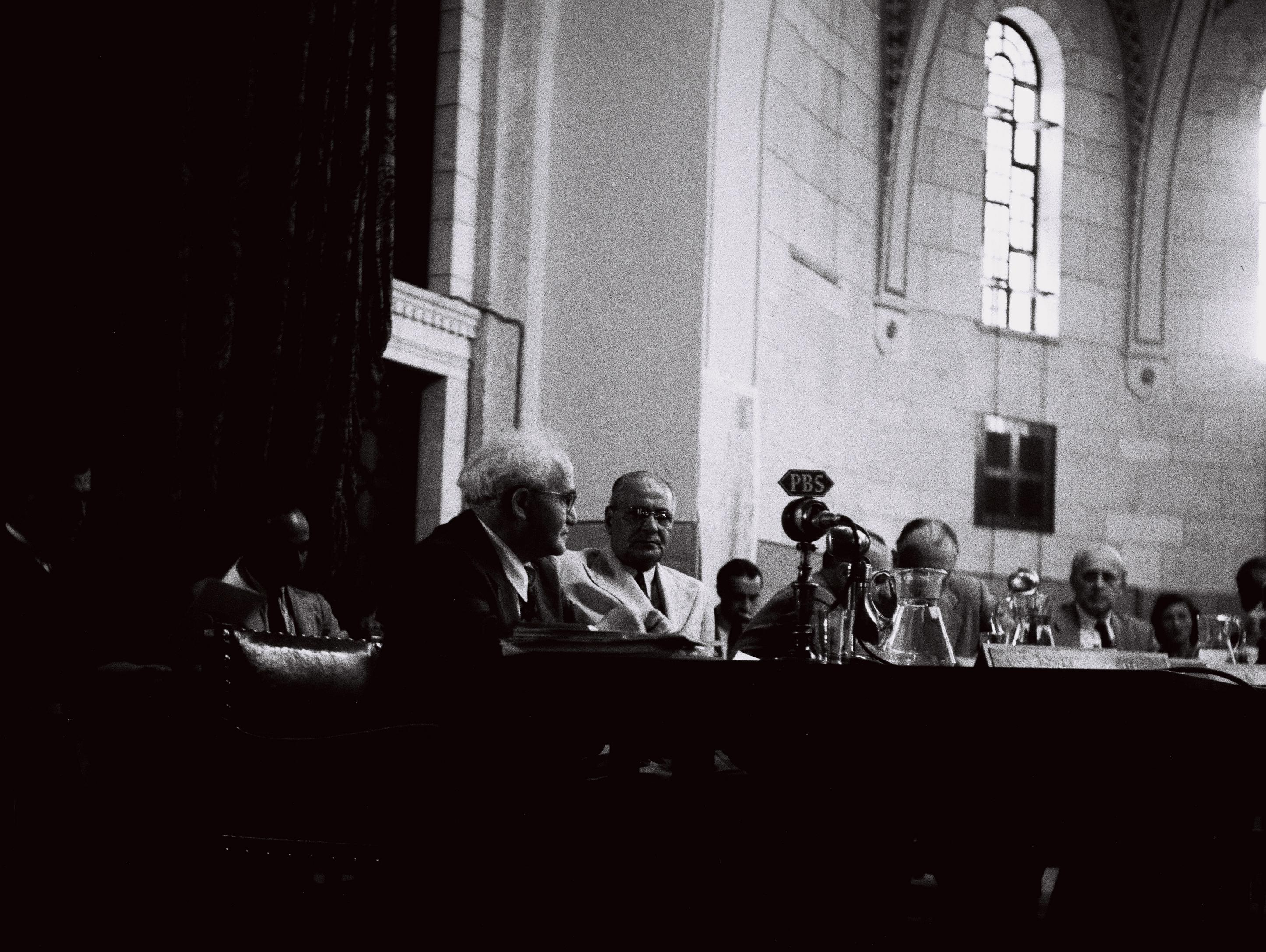 DAVID BEN GURION (L) TESTIFYING BEFORE THE UNSCOP MEMBERS IN THE JERUSALEM YMCA.